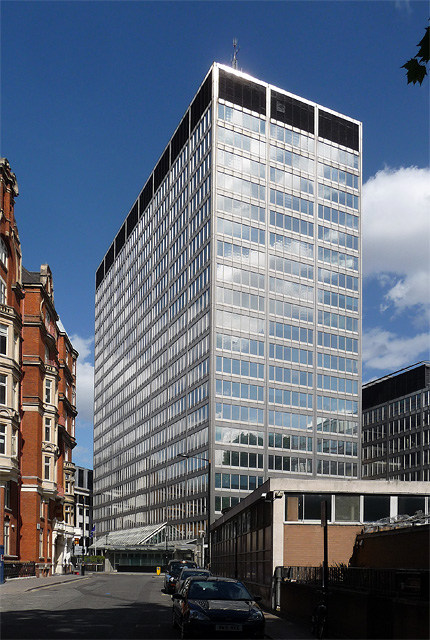 A polished building, in every sense of the word, originally a speculative development by Chapman Taylor Partners in 1962-66, snapped up by the Metropolitan Police while it was being built. Originally it was built of grey granite but it was clad in stainless steel in 1984-86. There is a long, lower block fronting Victoria Street. The iconic revolving sign is bottom left but almost impossible to pick out from this photo.